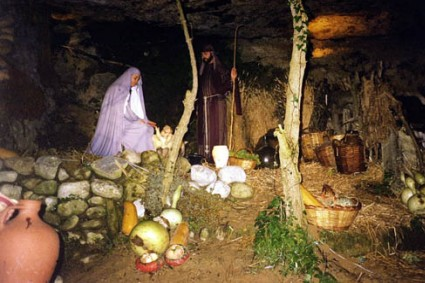 El Naixement. Imatge de la representació d' "EL PESSEBRE" de Bàscara